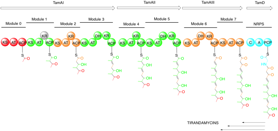 Figure 2. Biosynthetic pathway of tirandamycins